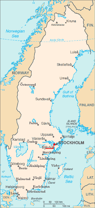 Location map of Björkö / Birka in Sweden. very approximate.